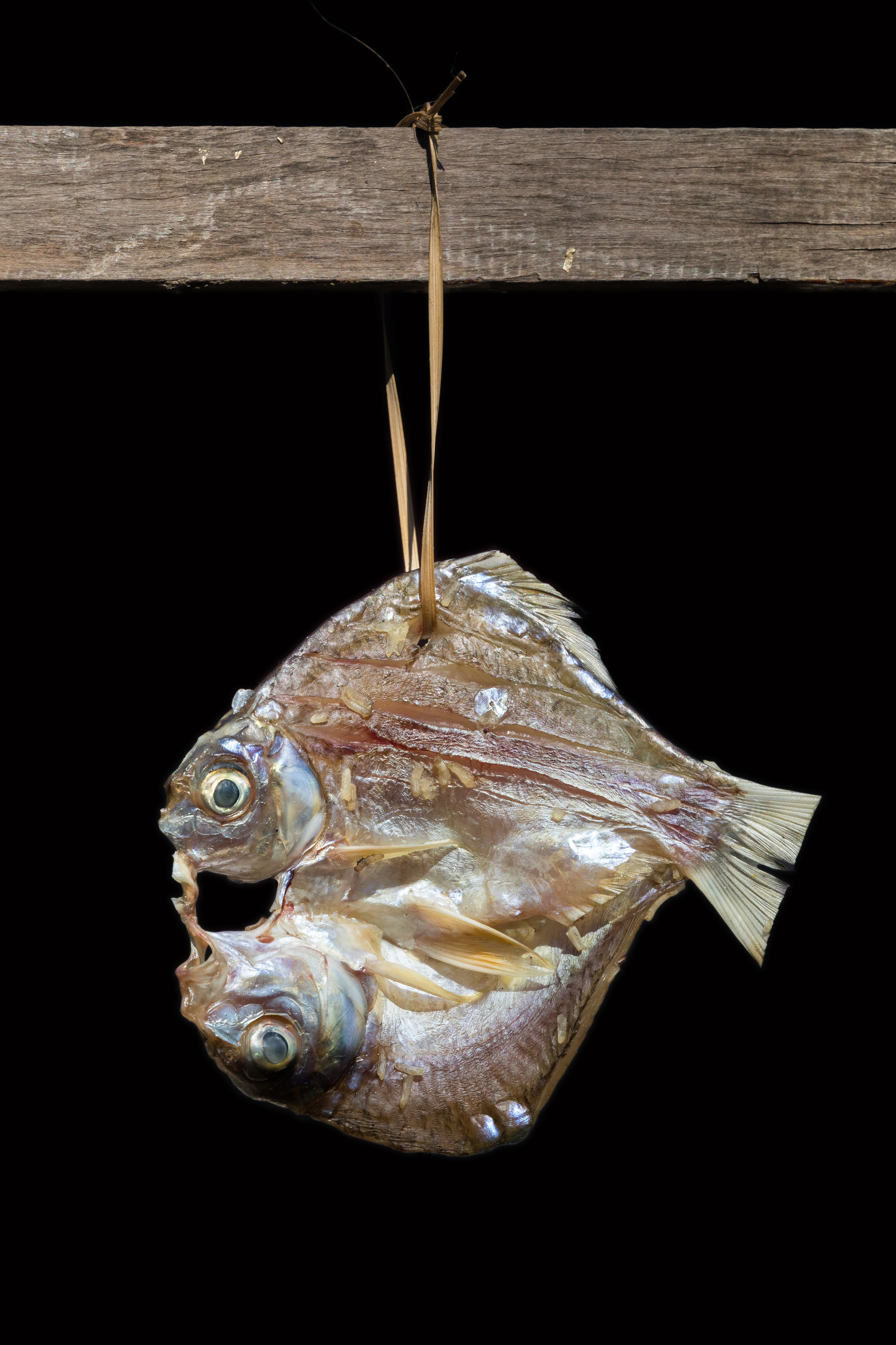 Mekong fish (pa tak or ປາຕາກ in Lao) hanging on a rack and drying in the sun, with black background, in Don Det (Si Phan Don), Laos